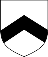 Trelawny COA